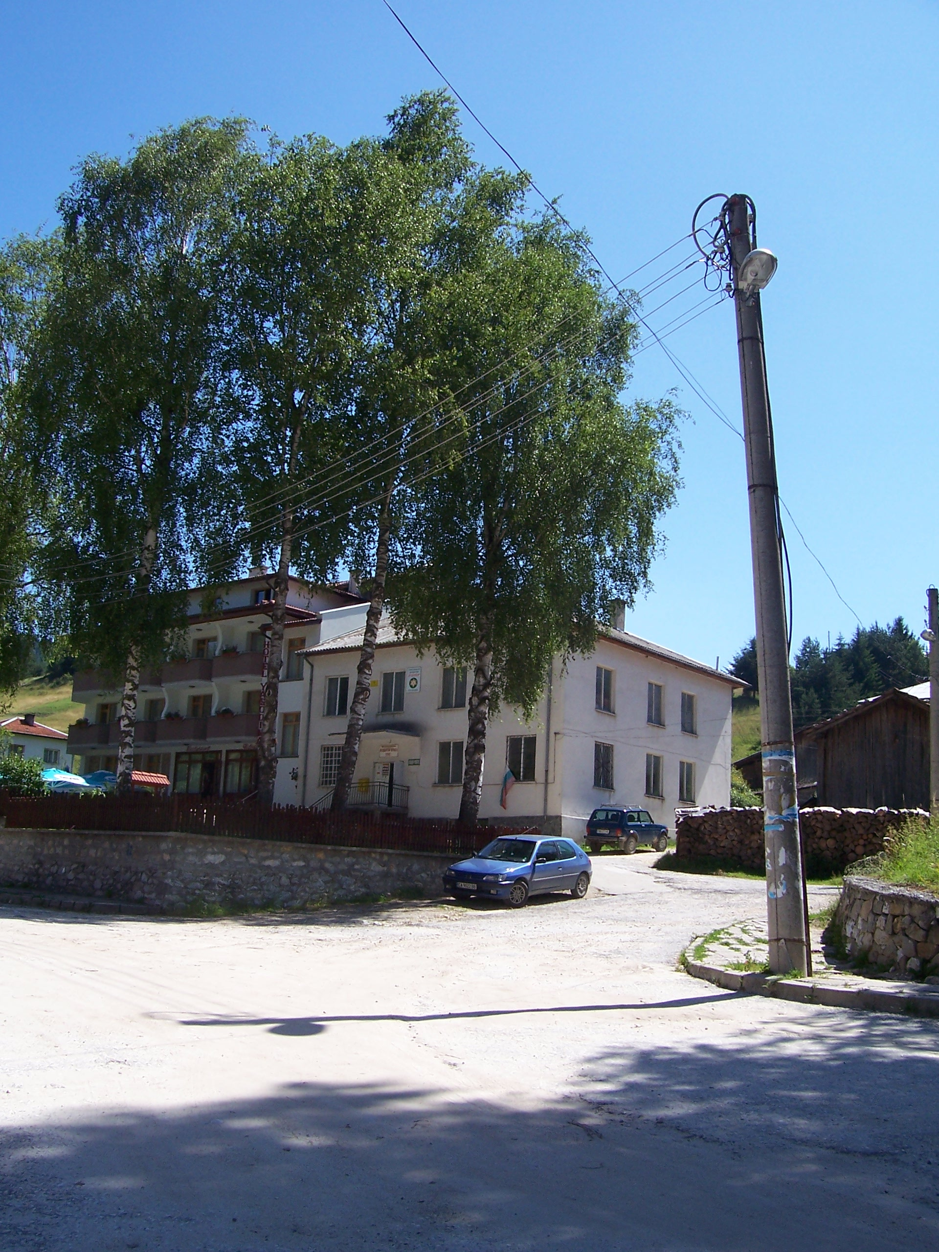 Mayer office and a hotel in the village of Yagodina, Bulgaria.